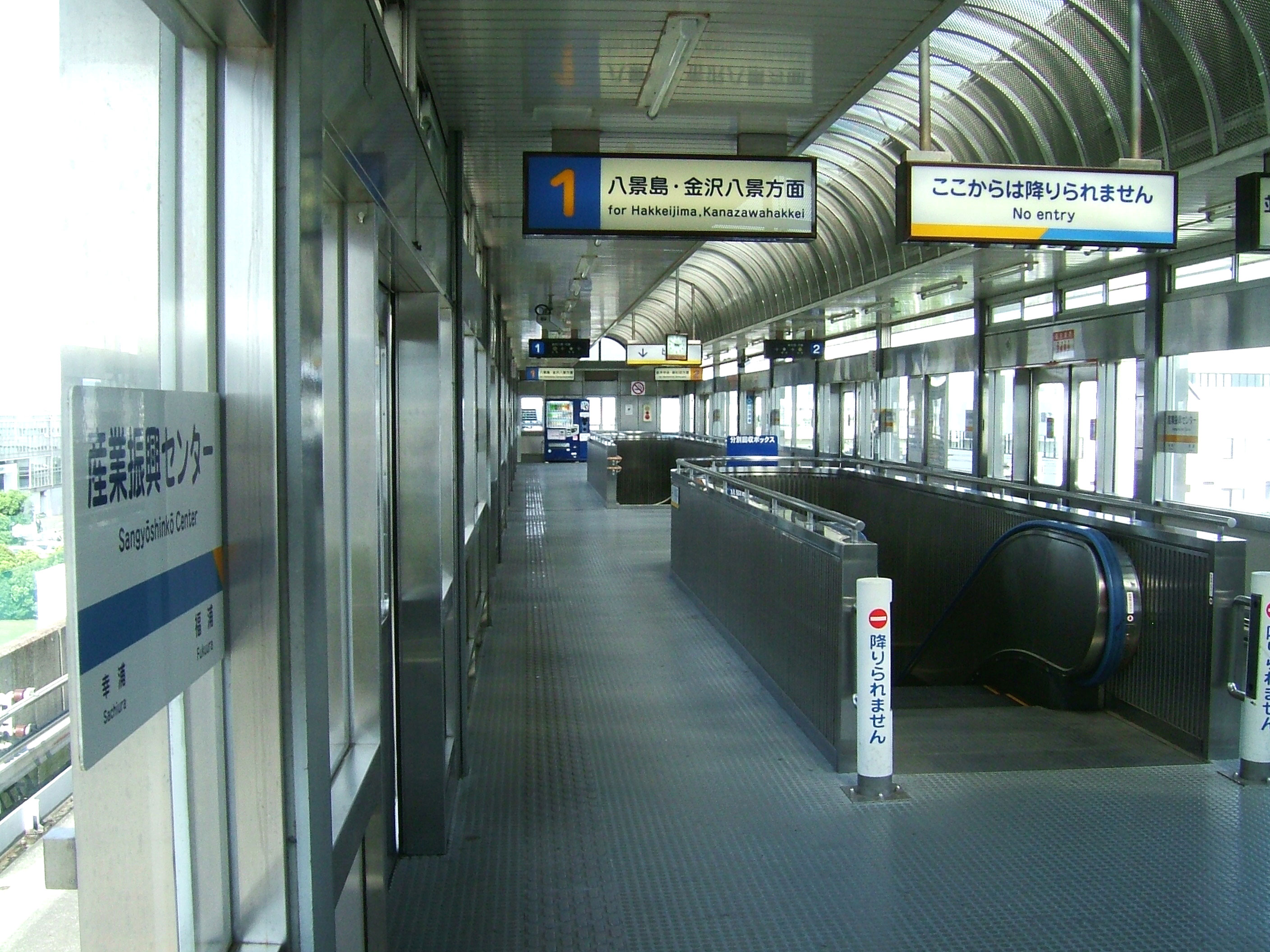 Sangyo-Shinko-Center Station platform (Kanazawa Seaside Line)